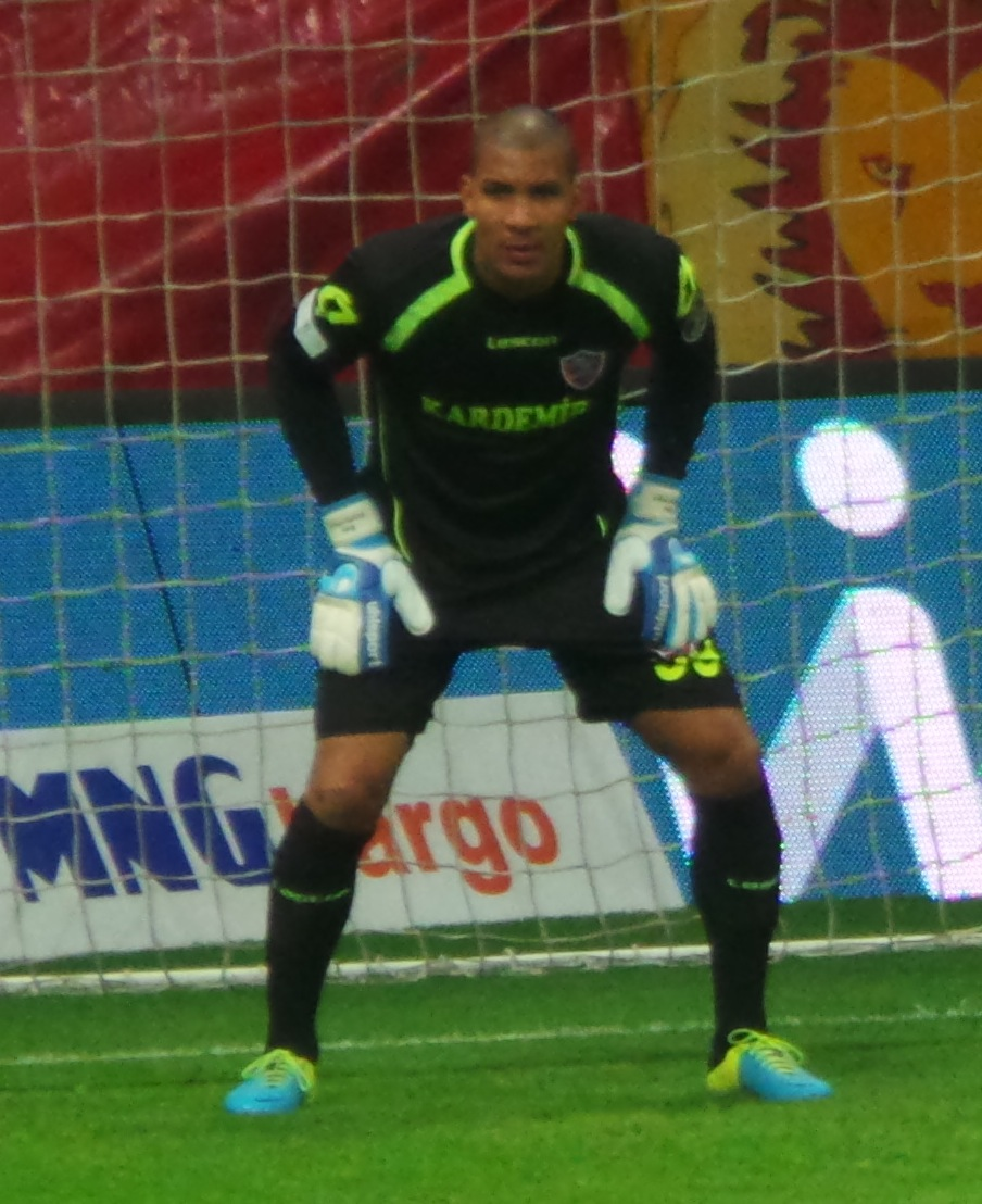 Boy Waterman vs GS